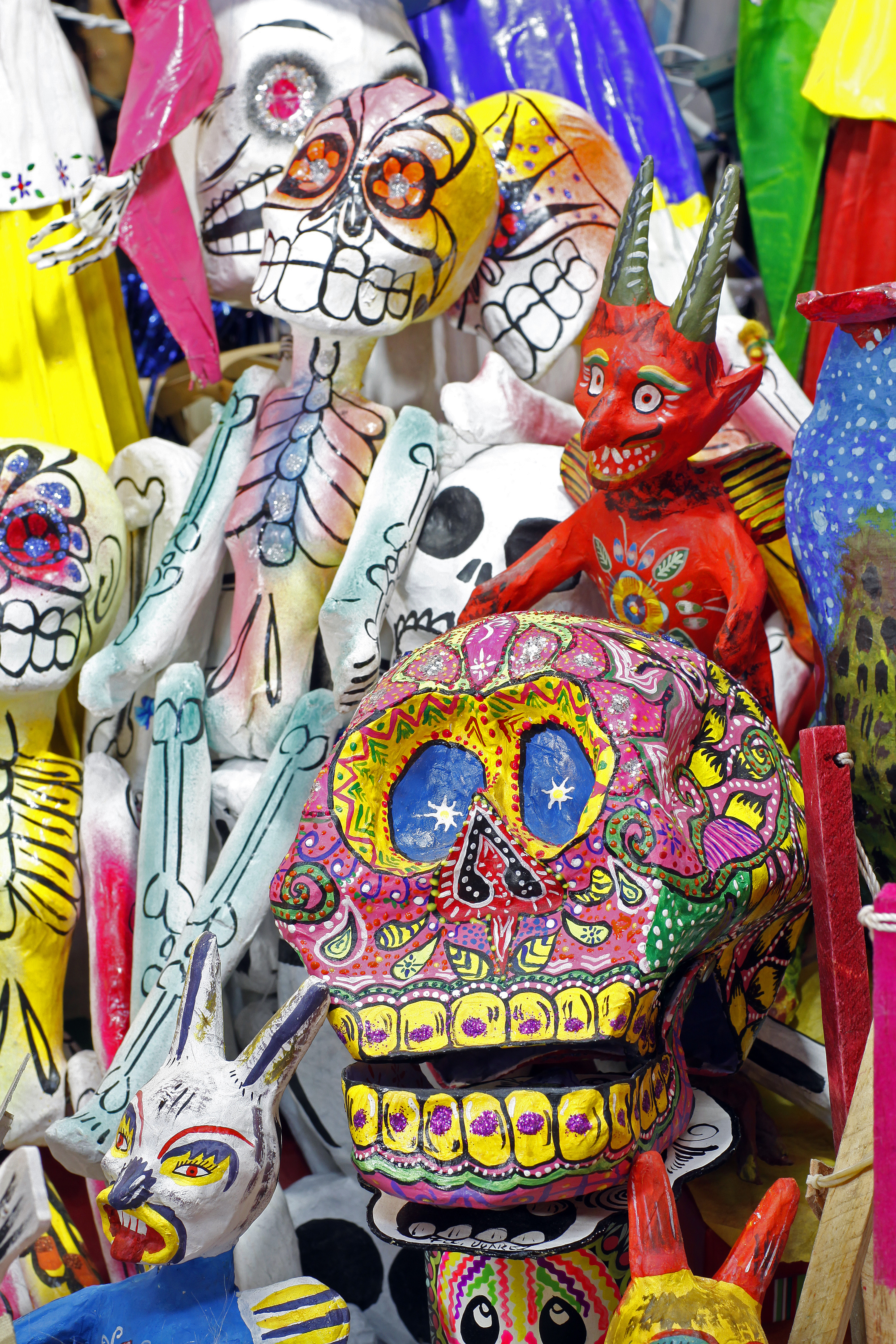 Paper maché figures in Guanajuato Market, Mexico. Intricate color patterns and color combinations are characteristic of Mexican folk art, that often dwells in the magical, death, and fantastic.